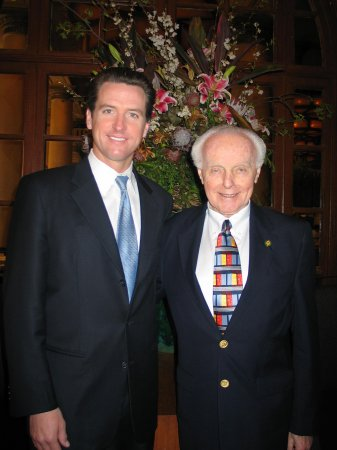 Congressman Tom Lantos with San Francisco Mayor Gavin Newsom